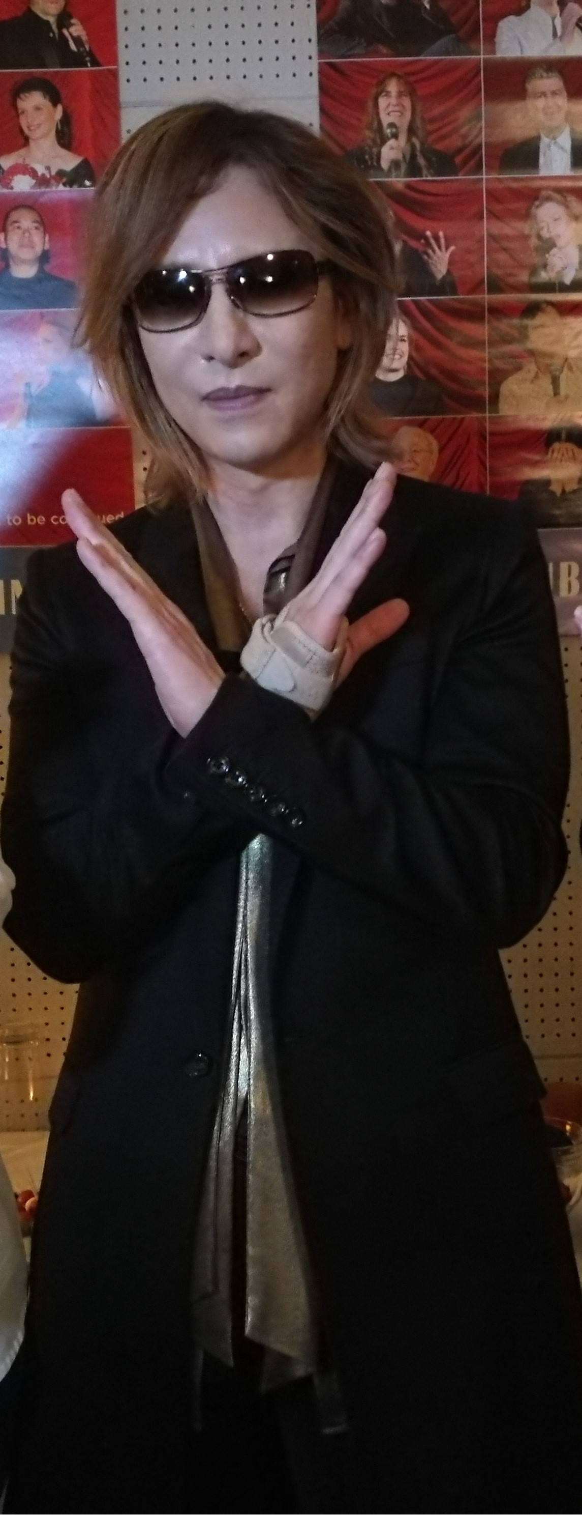 Yoshiki in Vienna, October 15, 2017